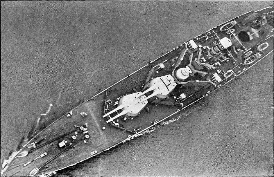 Aerial photograph of bow and centre of British battlecruiser HMS Repulse.